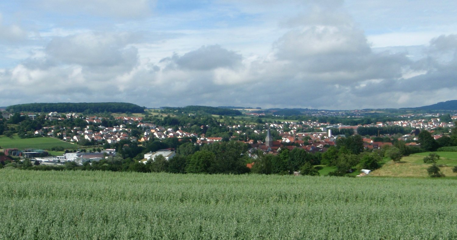 Faurndau